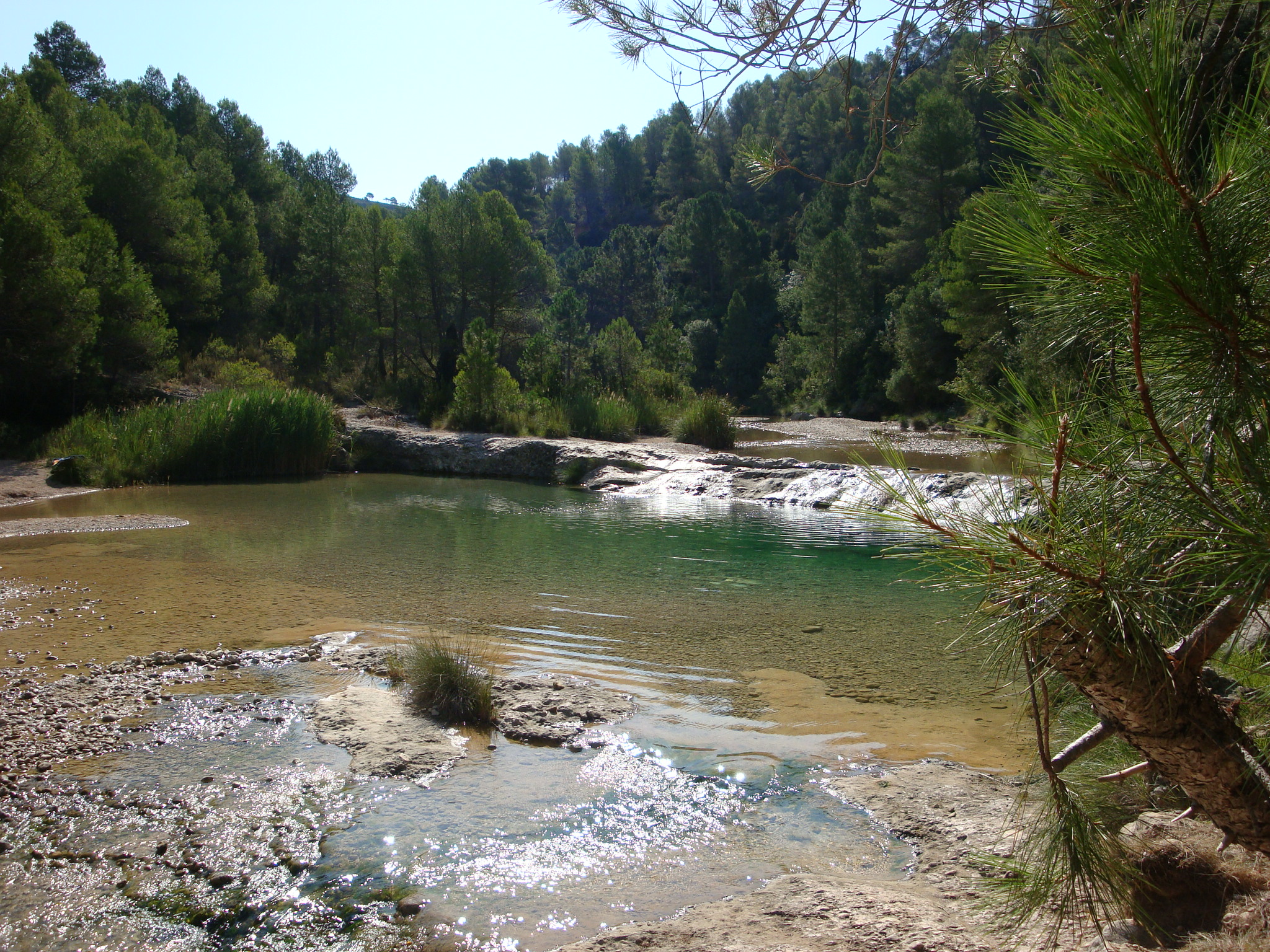 Ulldemó river, near Beseit